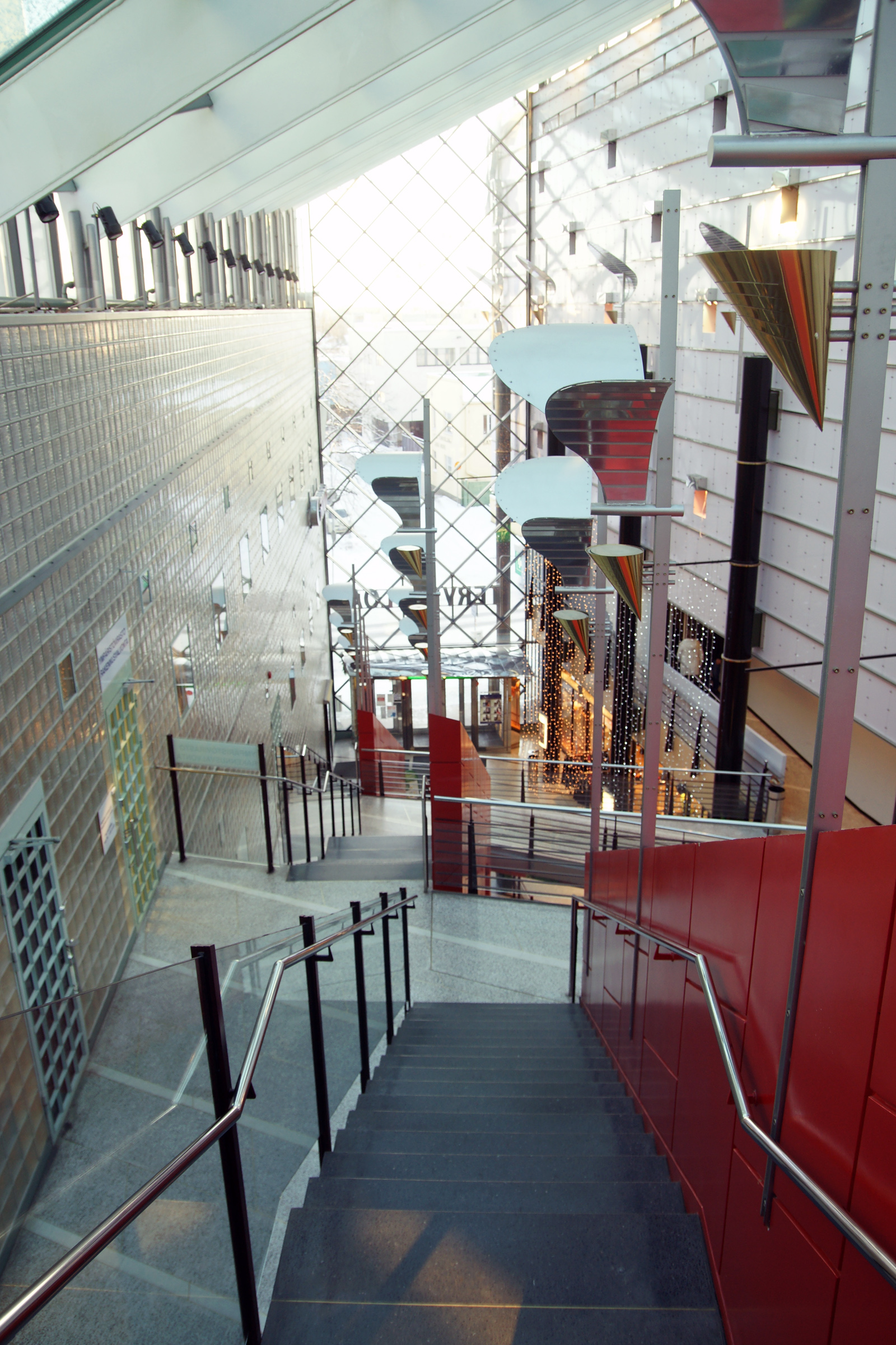 Interior of Shopping mall BePOP in Pori, Finland.